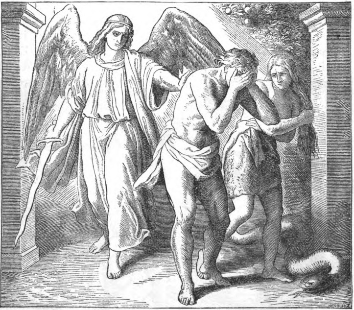 Adam and Eve expelled from the garden of Eden.